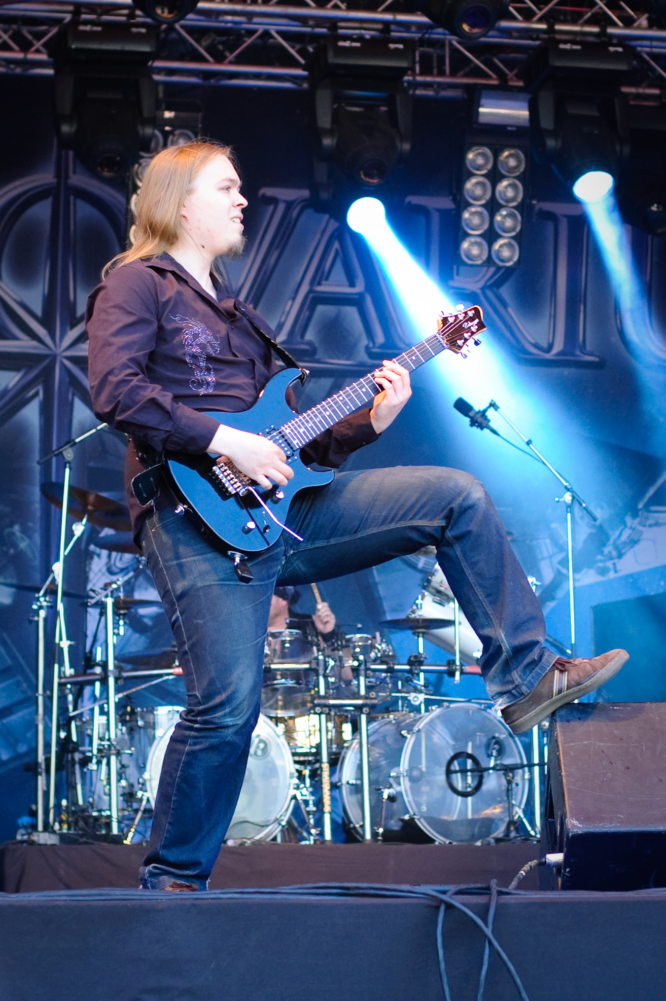 Guitarist Matias Kupiainen of Stratovarius performing at the Ilosaarirock 2009 festival in Joensuu Finland.